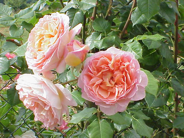 Species: Rosa sp. Family: Rosaceae Cultivar: Abraham Darby, Austin 1985 Image No. 19